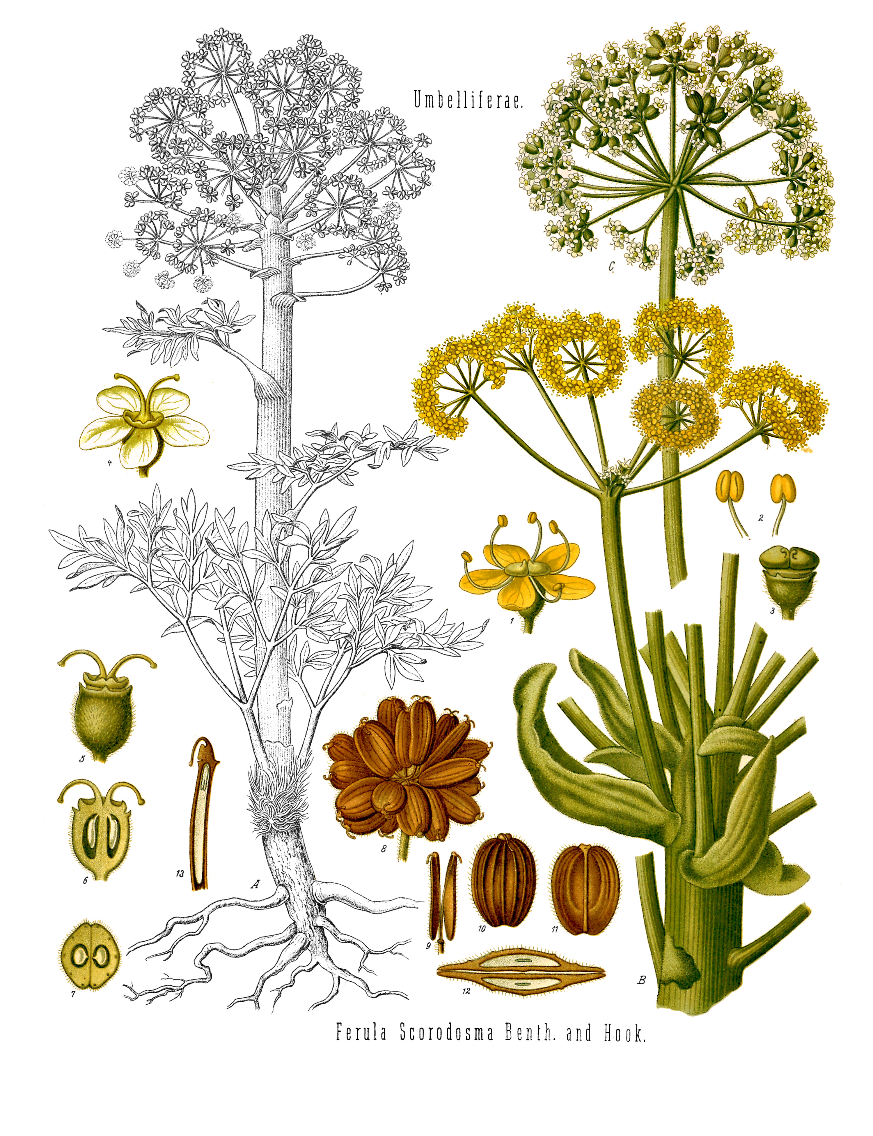 Ferula Sorkodosma, Benth. & Hook; syn. of Ferula assa-fœtida.